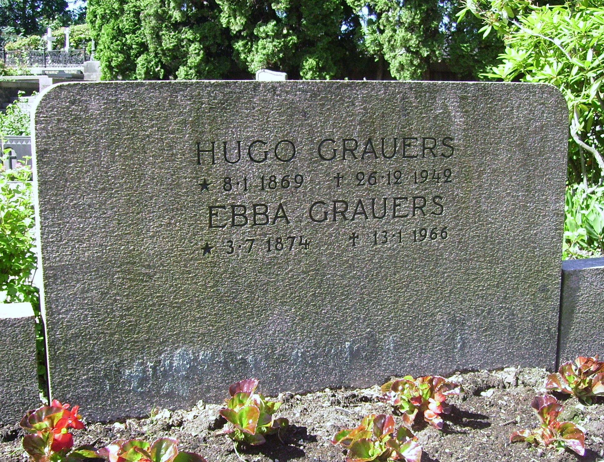 Picture of Hugo Grauers grave at Örgryte gamla kyrkogård in Gothenburg